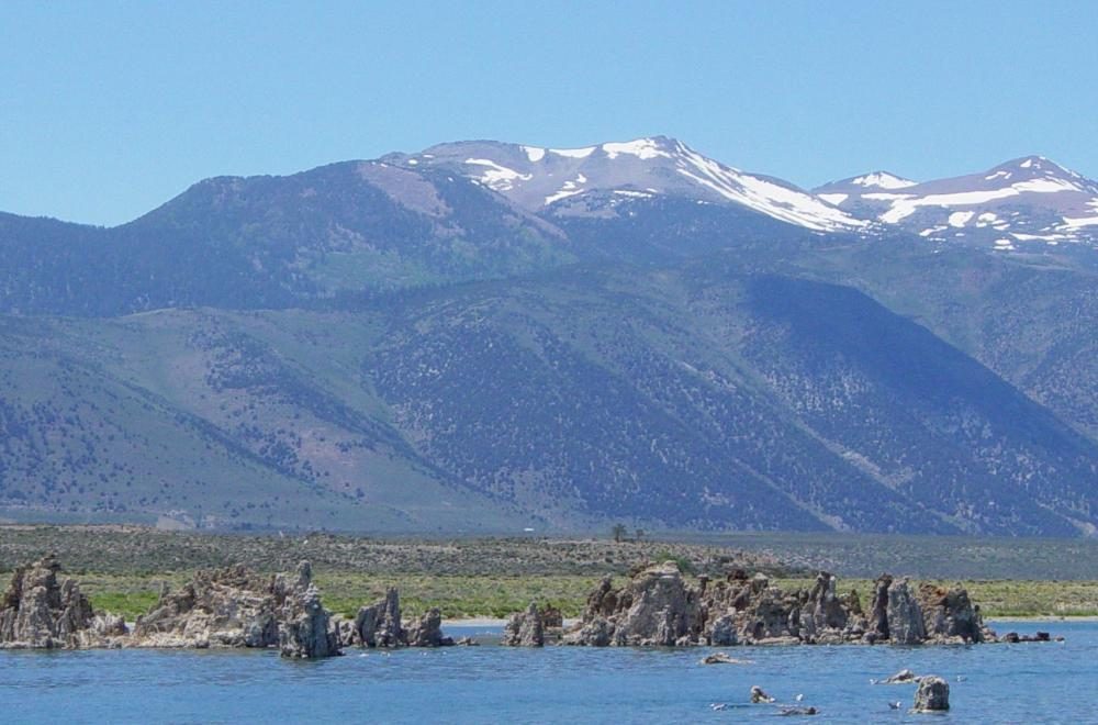 Image taken in June 2004 by Daniel Mayer.